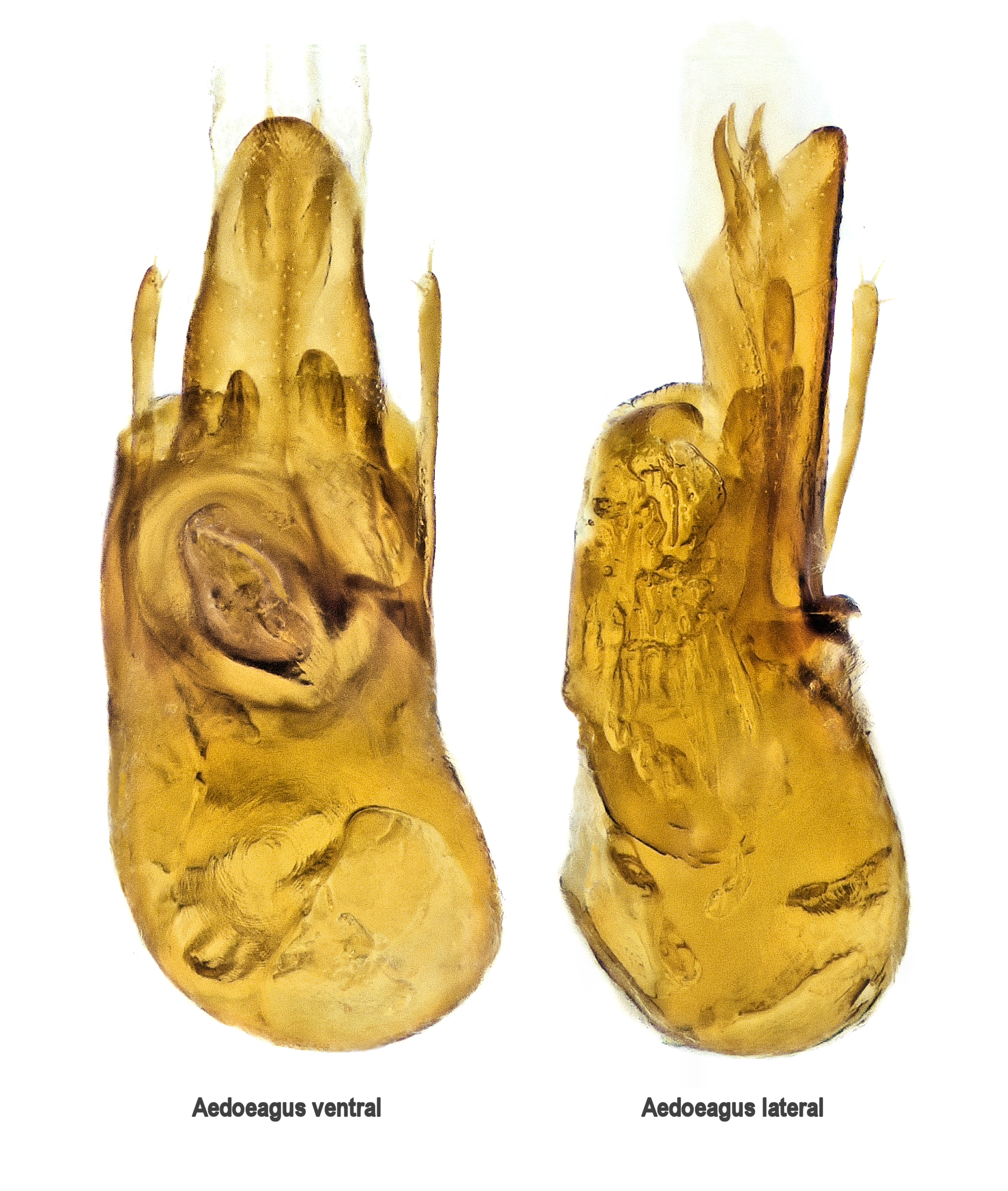 Family: Staphylinidae Description: Aedoeagus, 1.4 mm Photo: U.Schmidt, 2017